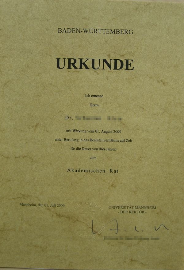 Letter of commission of a German temporary university official.